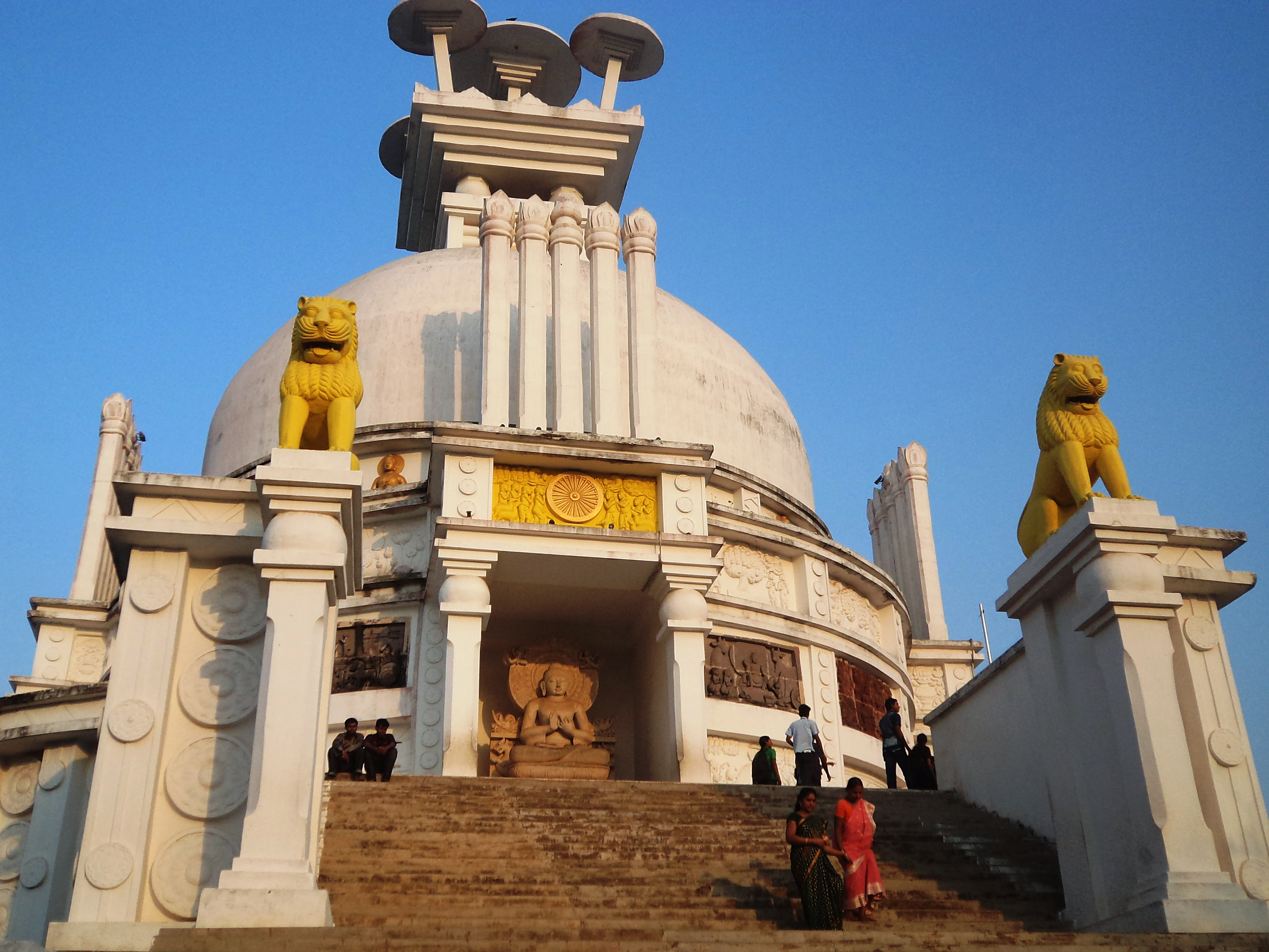 The front view of The Santi Stupa on top of Dhauli Hills.